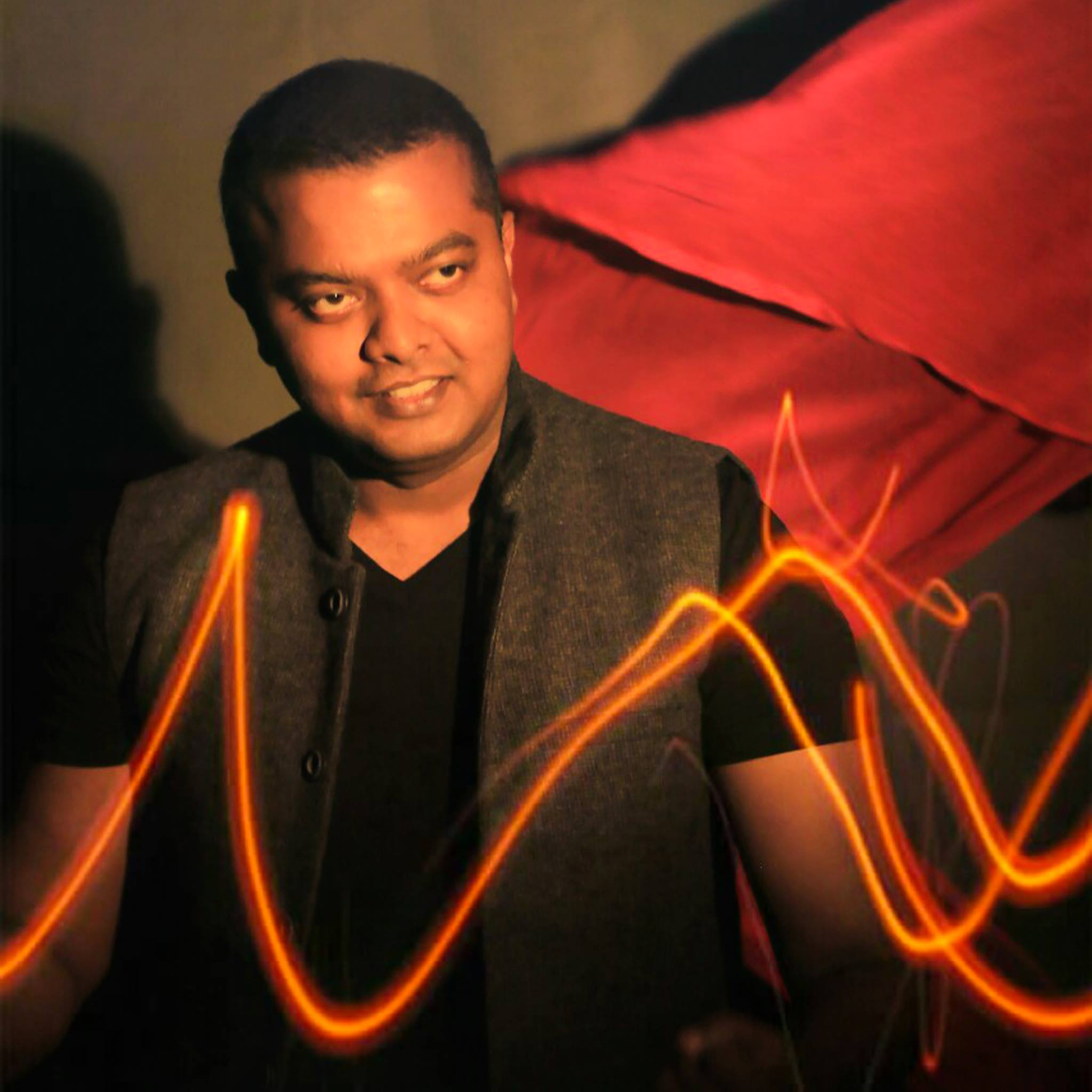 Nikki